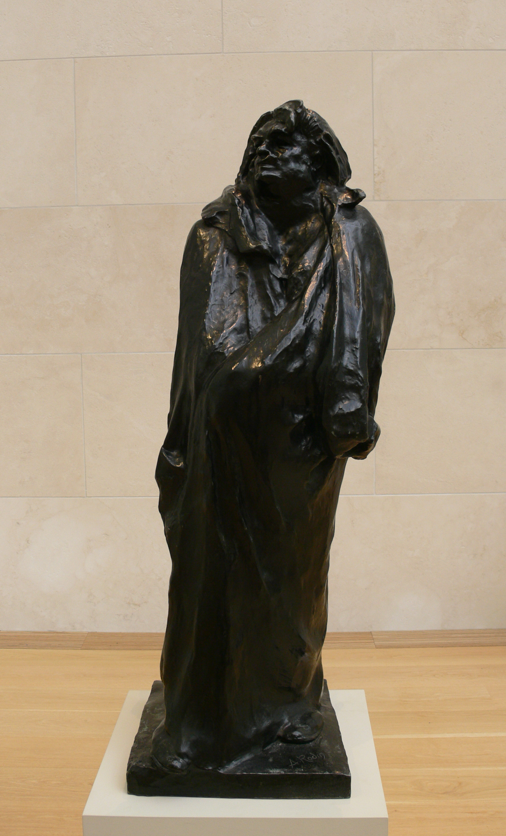 Auguste Rodin: Portrait statue of Honoré de Balzac; Nasher Sculpture Center, Dallas, Texas